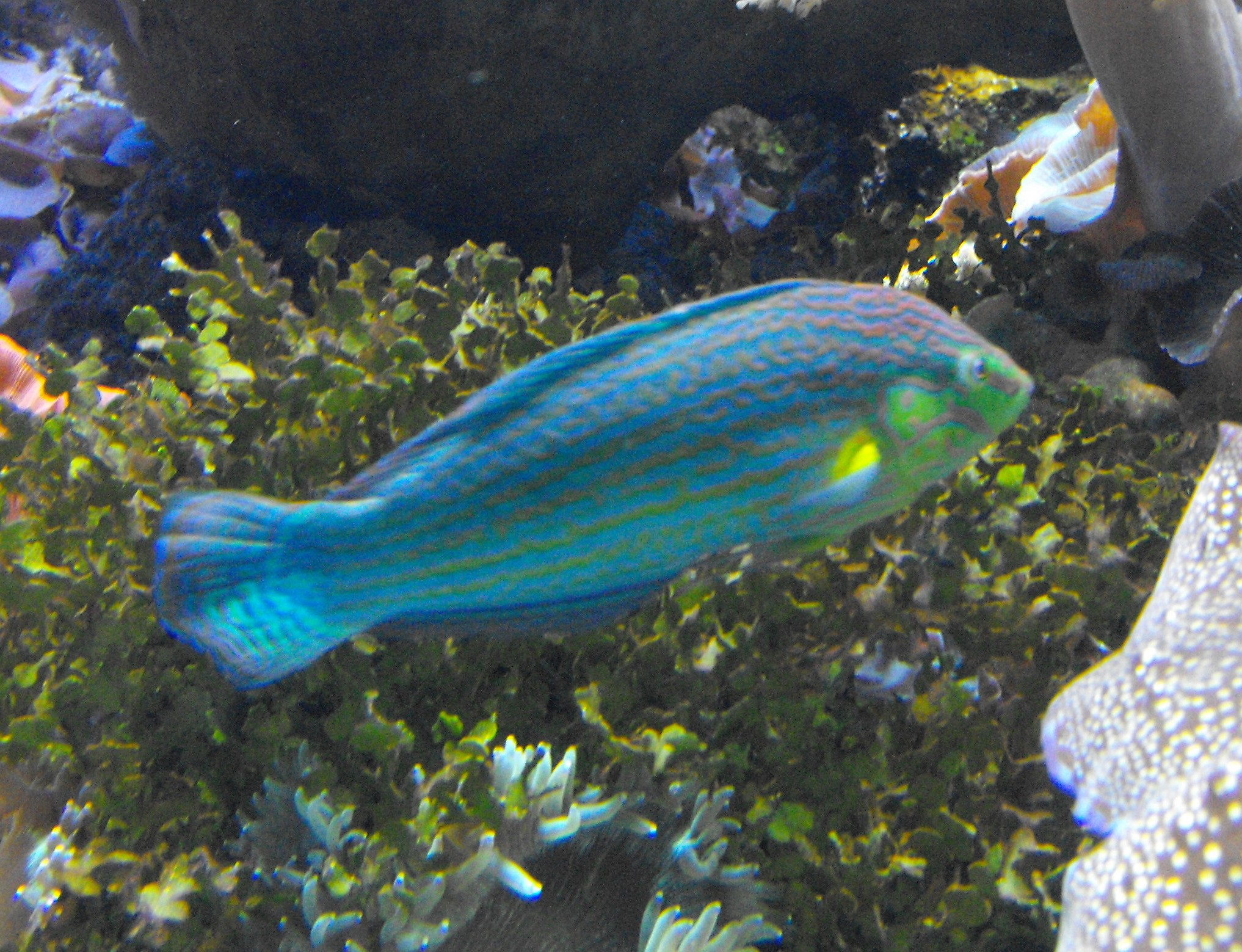 Halichoeres melanurus at the Birch Aquarium in San Diego, California, USA.